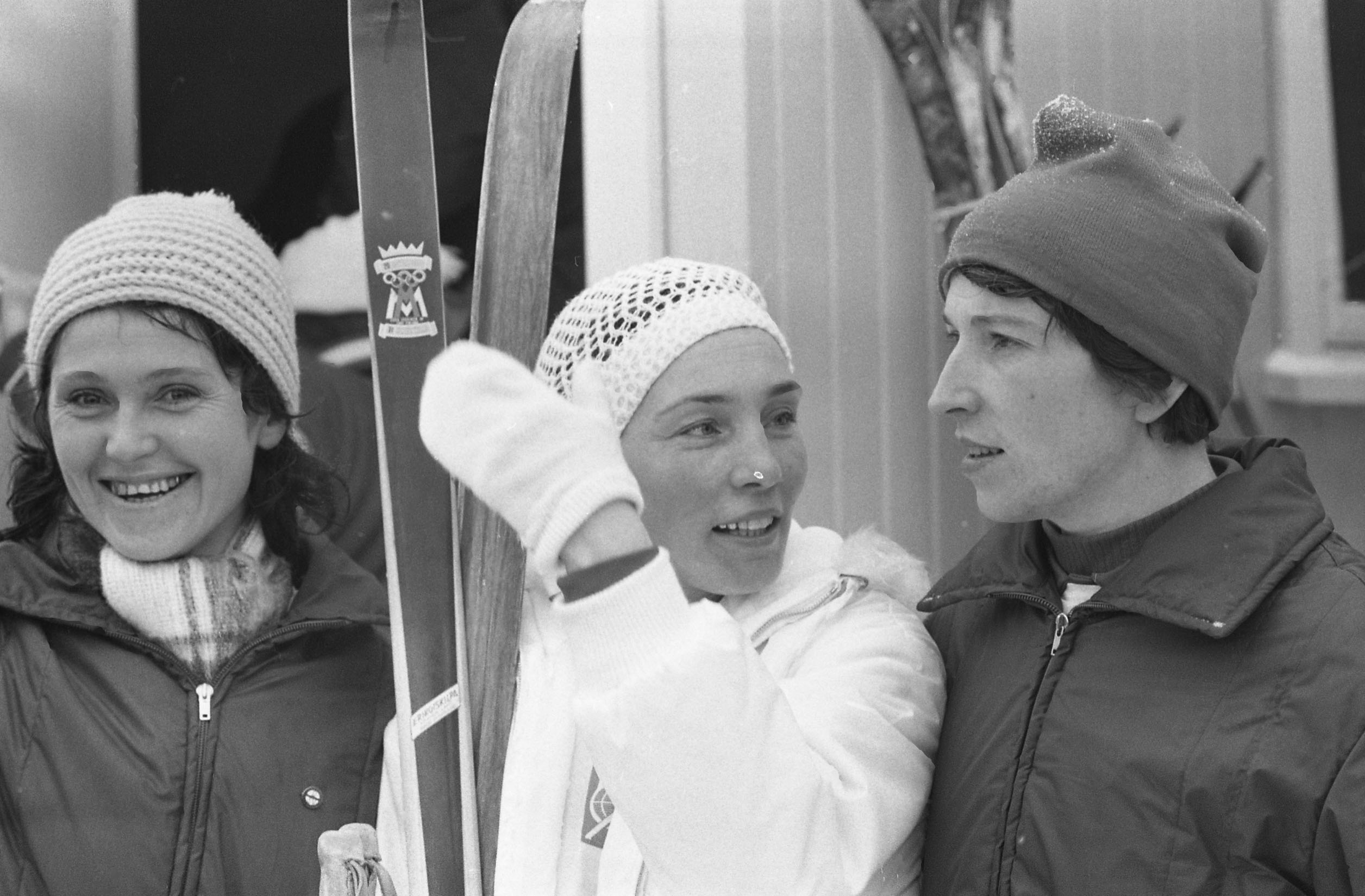 Beskrivelse: Sovjet tar gull Fotograf: Billedbladet NÅ/Klæboe og Lauritzen Sted: Oslo År: 1966 Arkivreferanse: RIKSARKIVET- RA/PA/0797/U/Ua/3893_8a_009 THE SOVIET GOLD WINNERS 3x5 KM RELAY FOR WOMEN Description: The Soviet Union wins gold Photographer: Billedbladet NÅ/Klæboe and Lauritzen Place: Oslo Year: 1966 Archival reference: RIKSARKIVET- RA/PA/0797/U/Ua/3893_8a_009